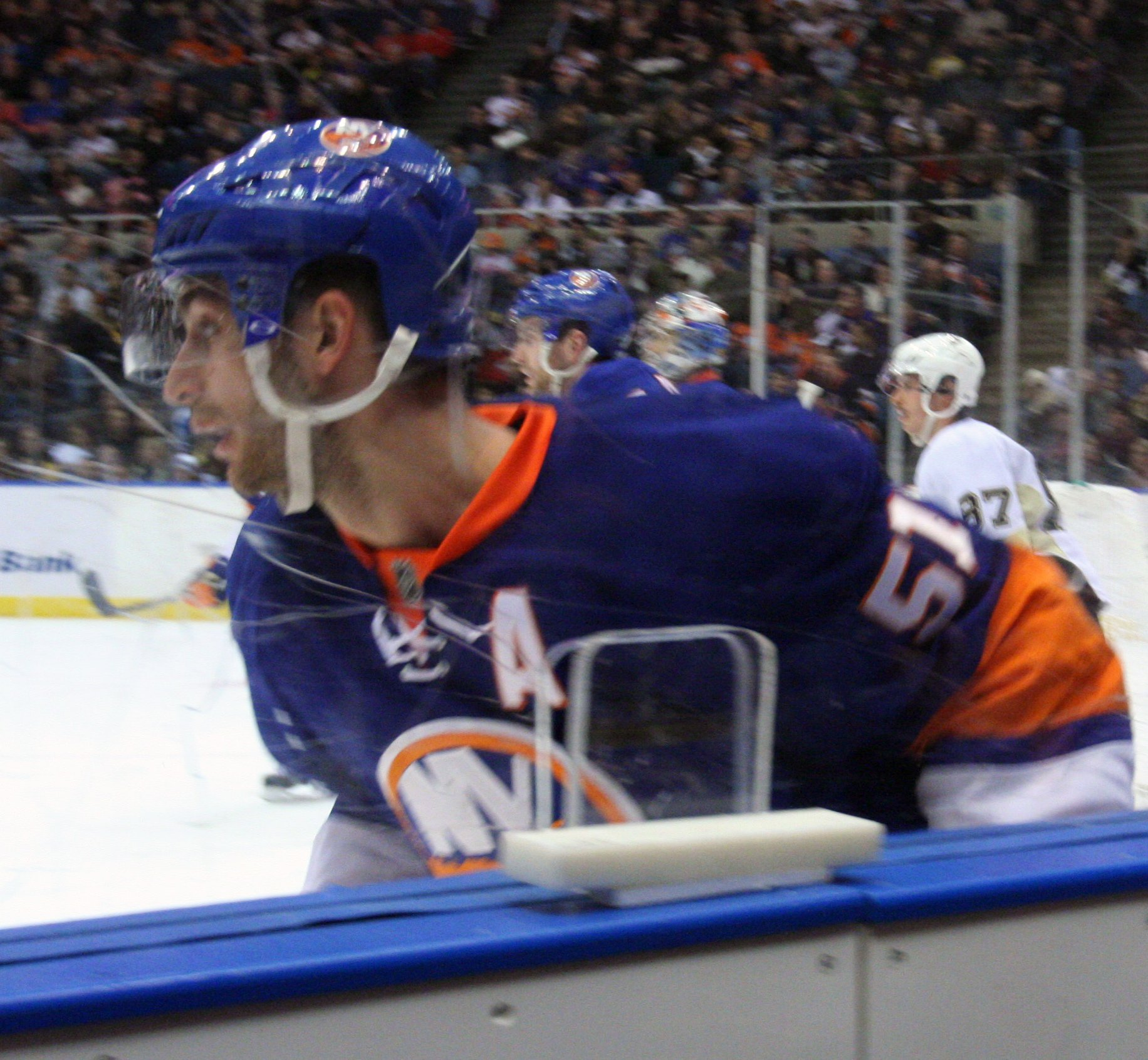 Frans Nielsen playing for the New York Islanders on 2010-12-29